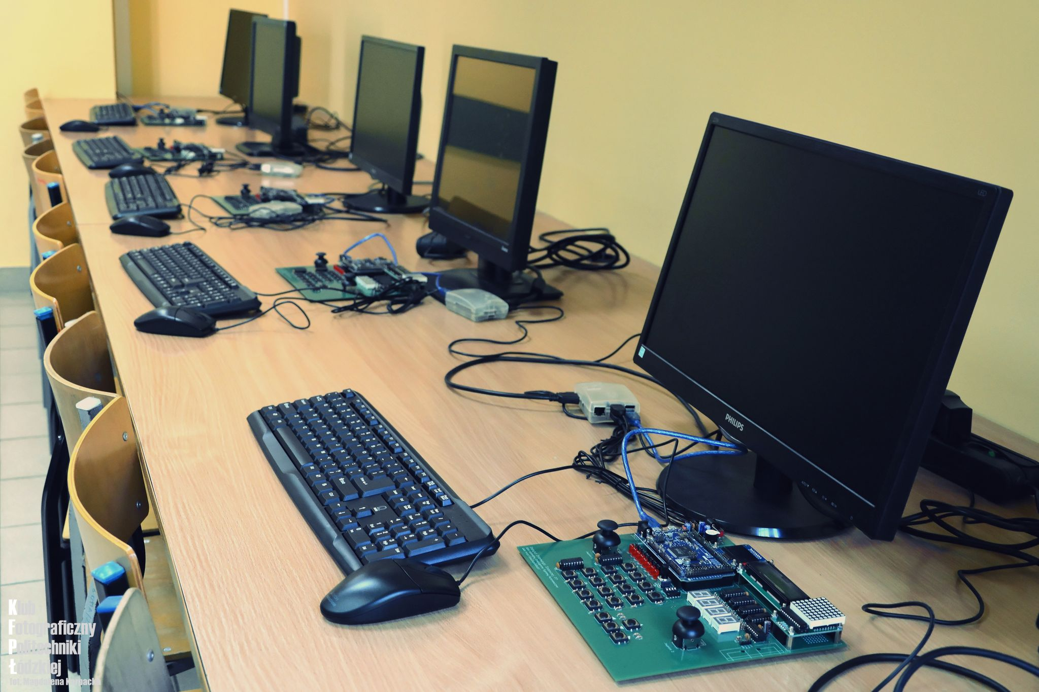 Intelligent Autonomous Systems Laboratory